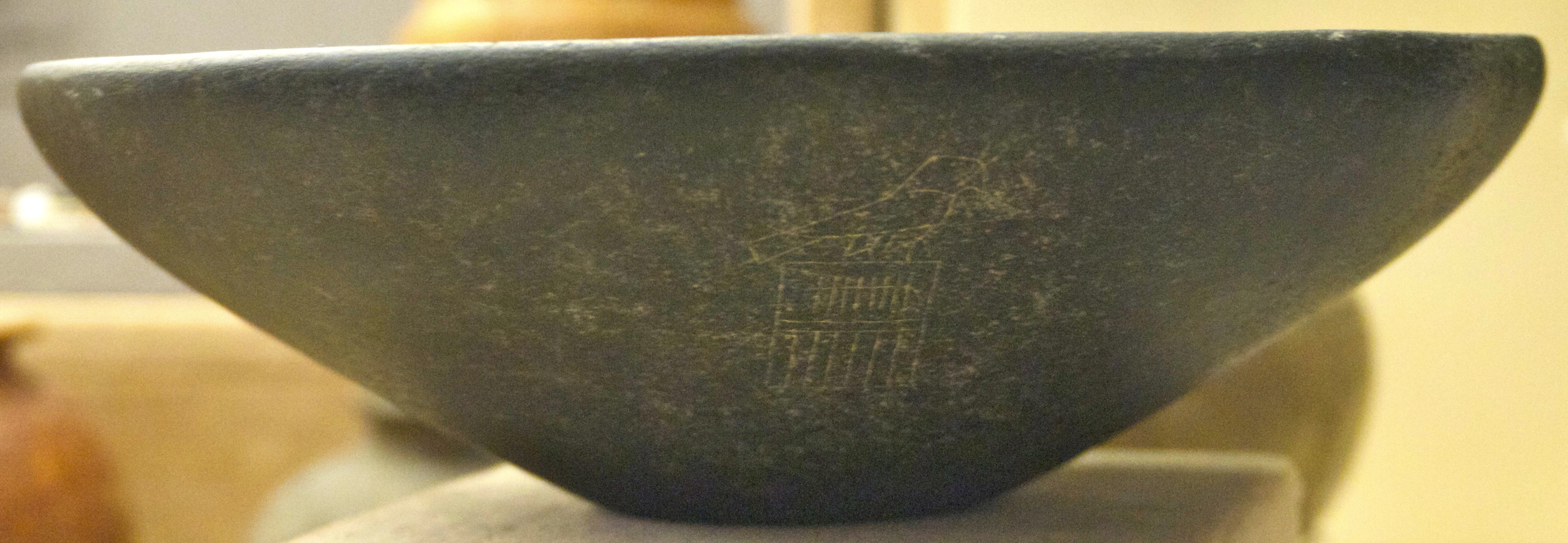 Stone vase bearing the serekh of pharaoh Djer, Musee des Antiquites Nationales, St Germain en Laye.